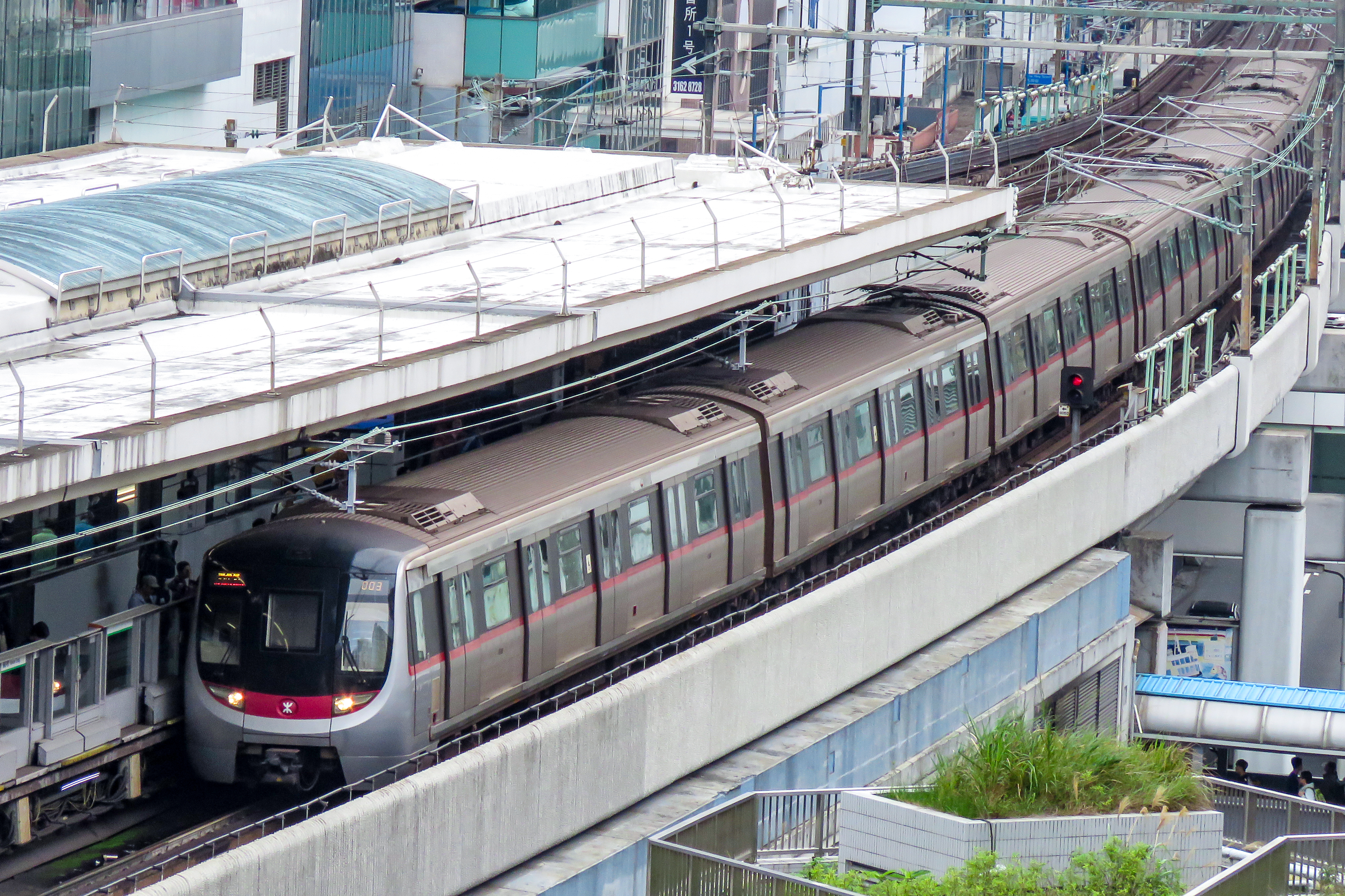 Top of KF137 is a breathtaking view of Kwun Tong Station, and there came an A380... wait a minute, not that flying fatso!